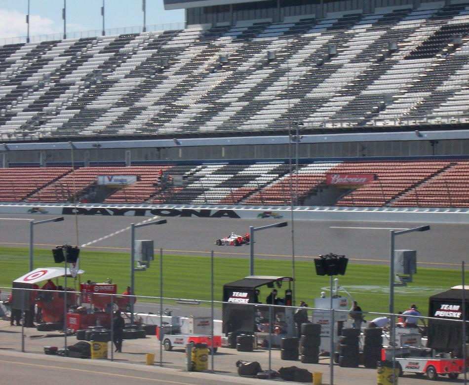 Test a Daytona Indy Racing League; Wednesday January 31, 2007